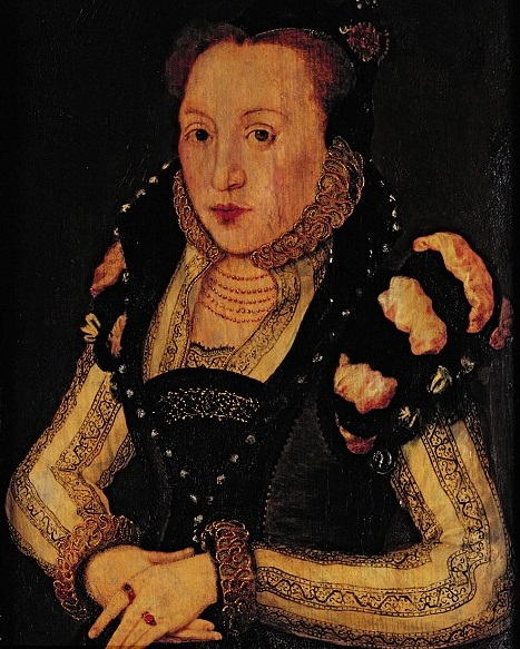 Lady Mary Grey, youngest sister of Lady Jane Grey